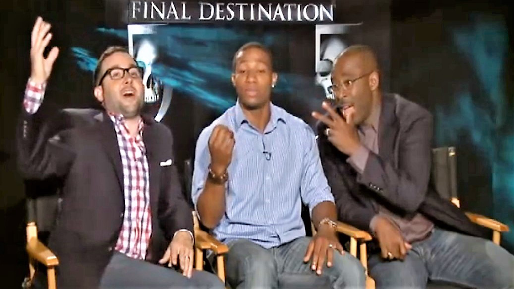 FinalDestination Junket EstrellasHoy American actors P. J. Byrne, Arlen Escarpeta, Courtney B. Vance interviewed by Dulce Osuna for their film Final Destination 5